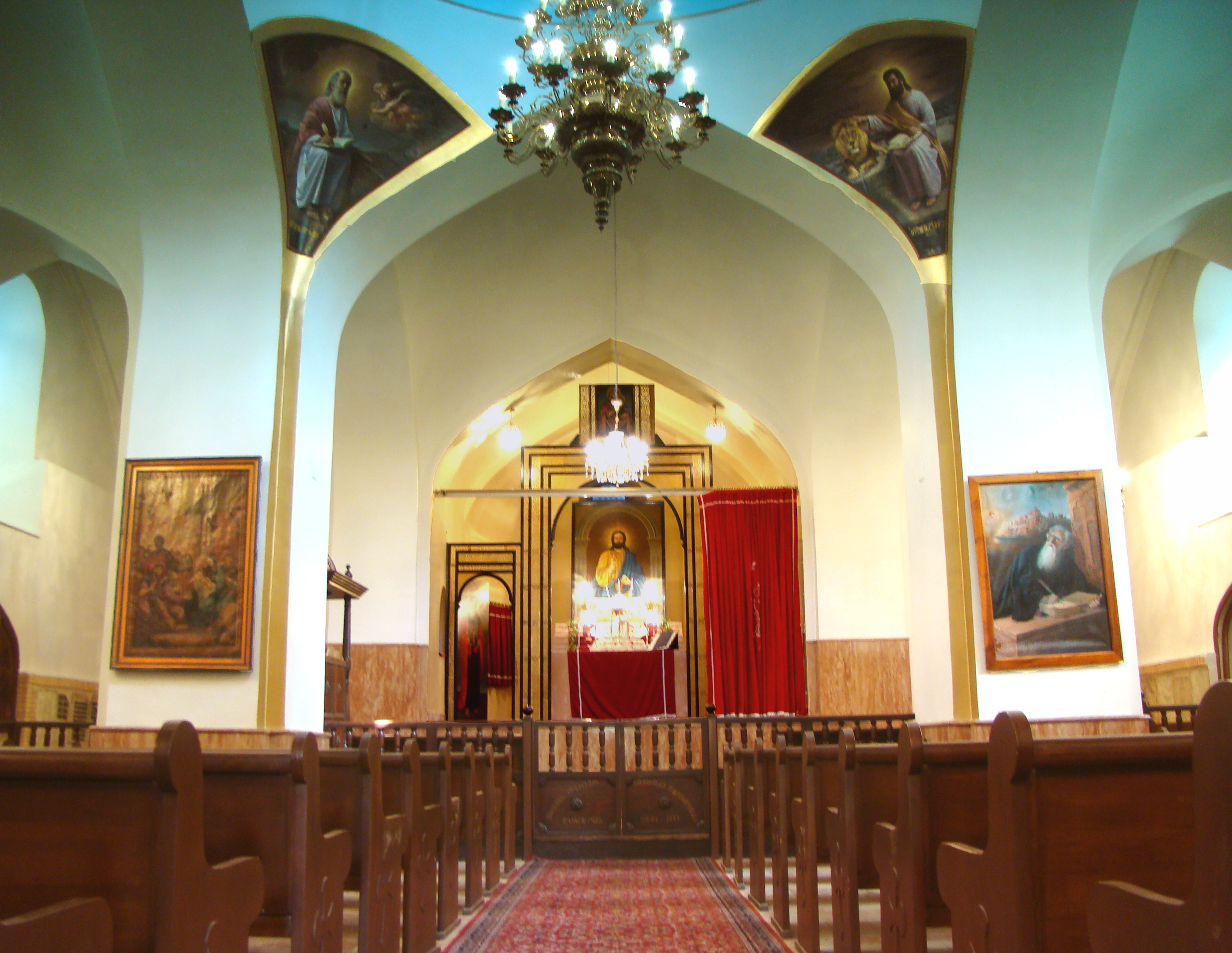 Insert hall of the Virgin Mary (Gerigury) church - Tabriz